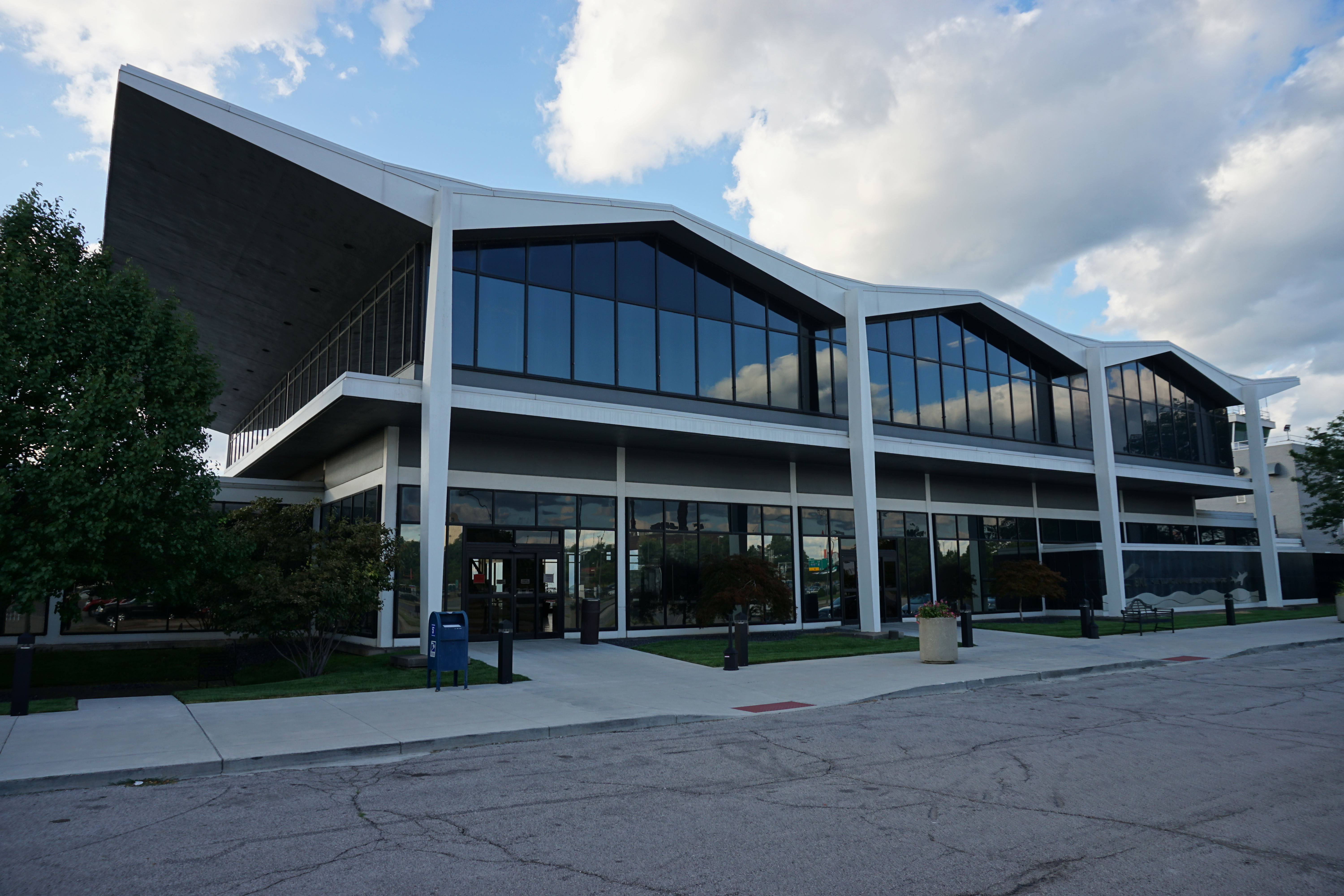 Burke Lakefront Airport in Cleveland, Ohio (United States).